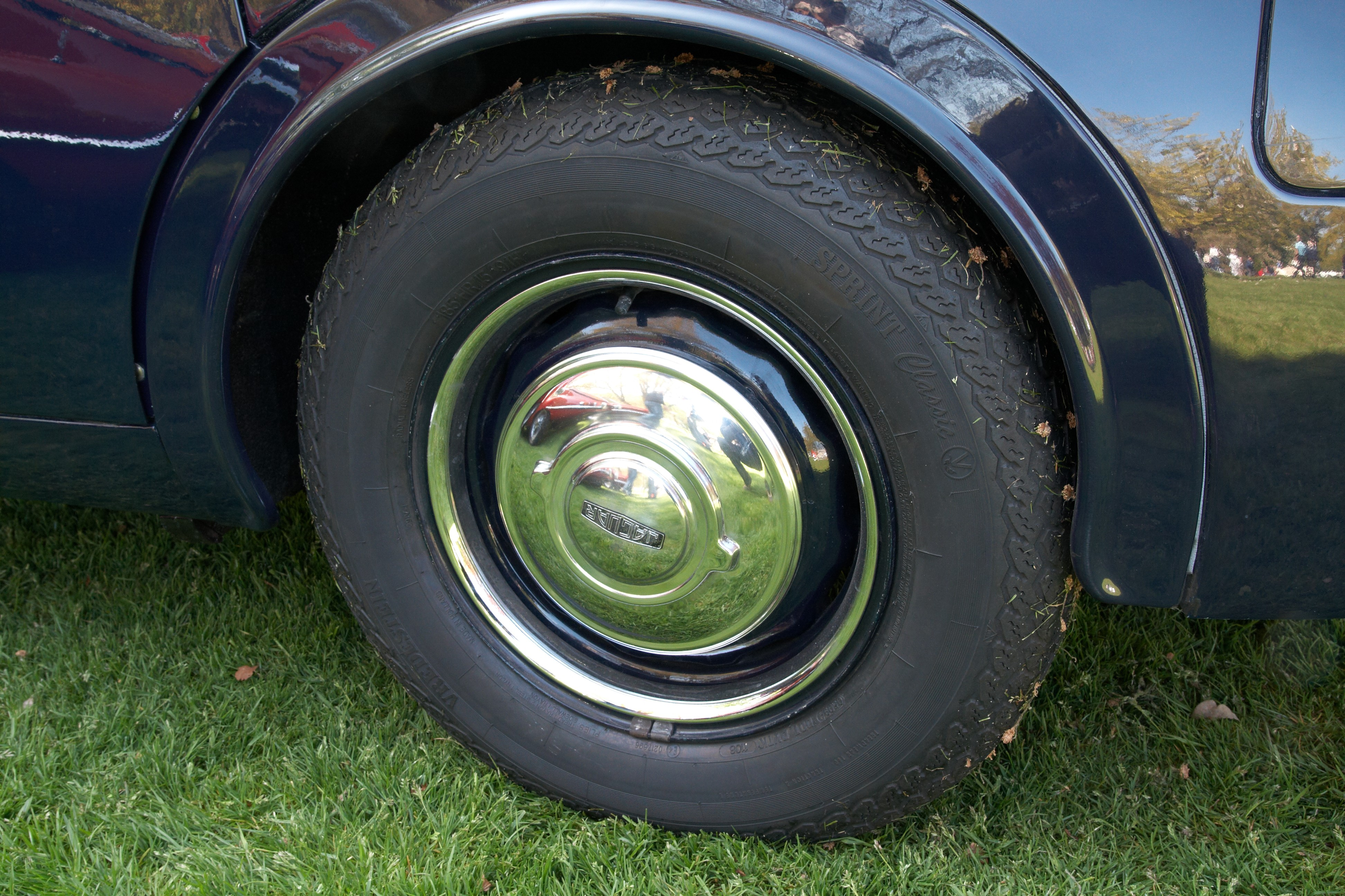 Steel wheels of a 1964 Jaguar Mark II, photographed at the 2009 Sofiero Classic car show in Helsingborg, Sweden.